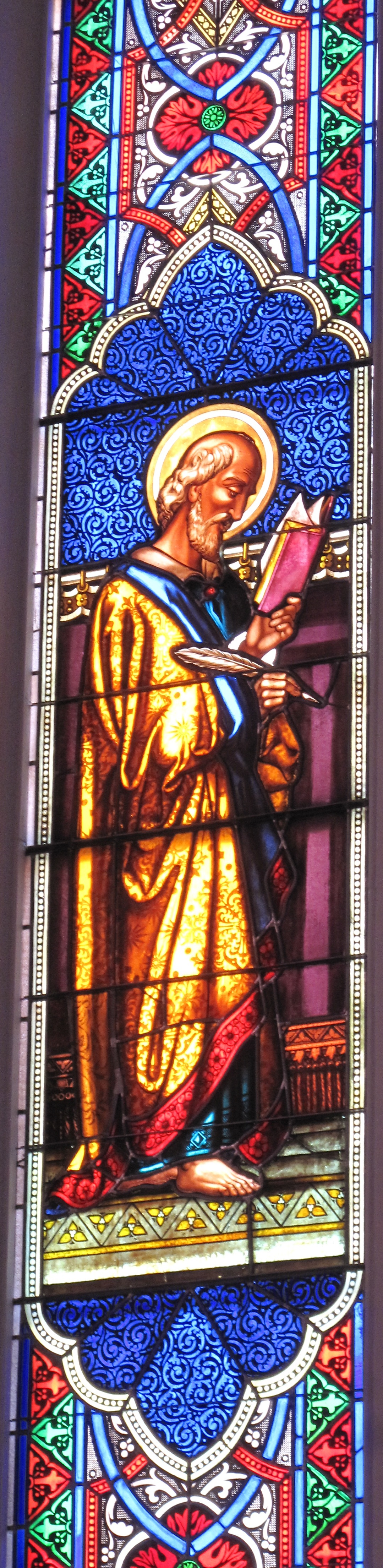 St. Luke window by Henry E. Sharp & Sons (1872) at St. Matthew's Lutheran Church in Charleston, South Carolina.